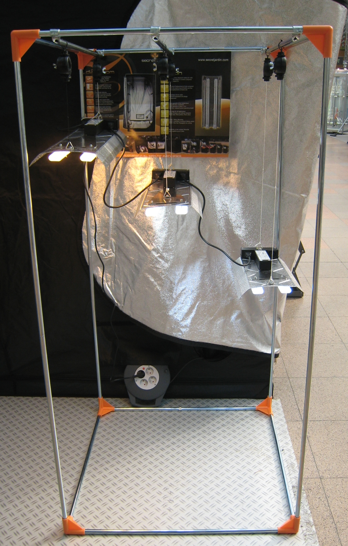 Three Lamps hang on a metal frame used as a frame for grow boxes